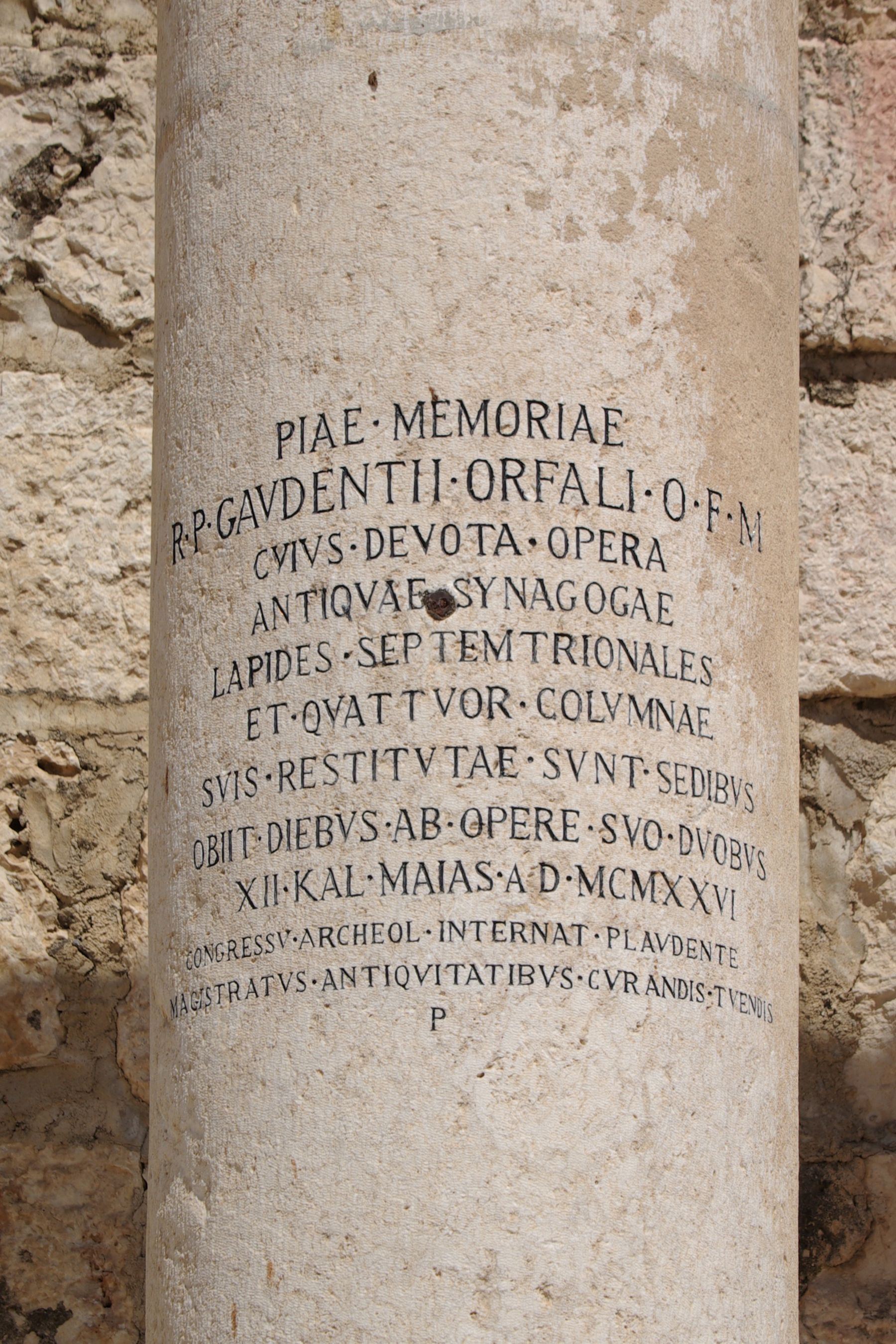 Capernaum, Synagogue, inscription at a column: To the pious memory of the Reverend Father (Reverendi Patris) Gaudentius Orfalus, OFM, by whose devout work the northern stones of the ancient synagogue and four columns were restored to their positions. He died two days after his work on April 20, 1926.